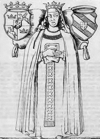 The oldest known reproduction of the image on Queen Catherine's tombstone, minus the epitaph